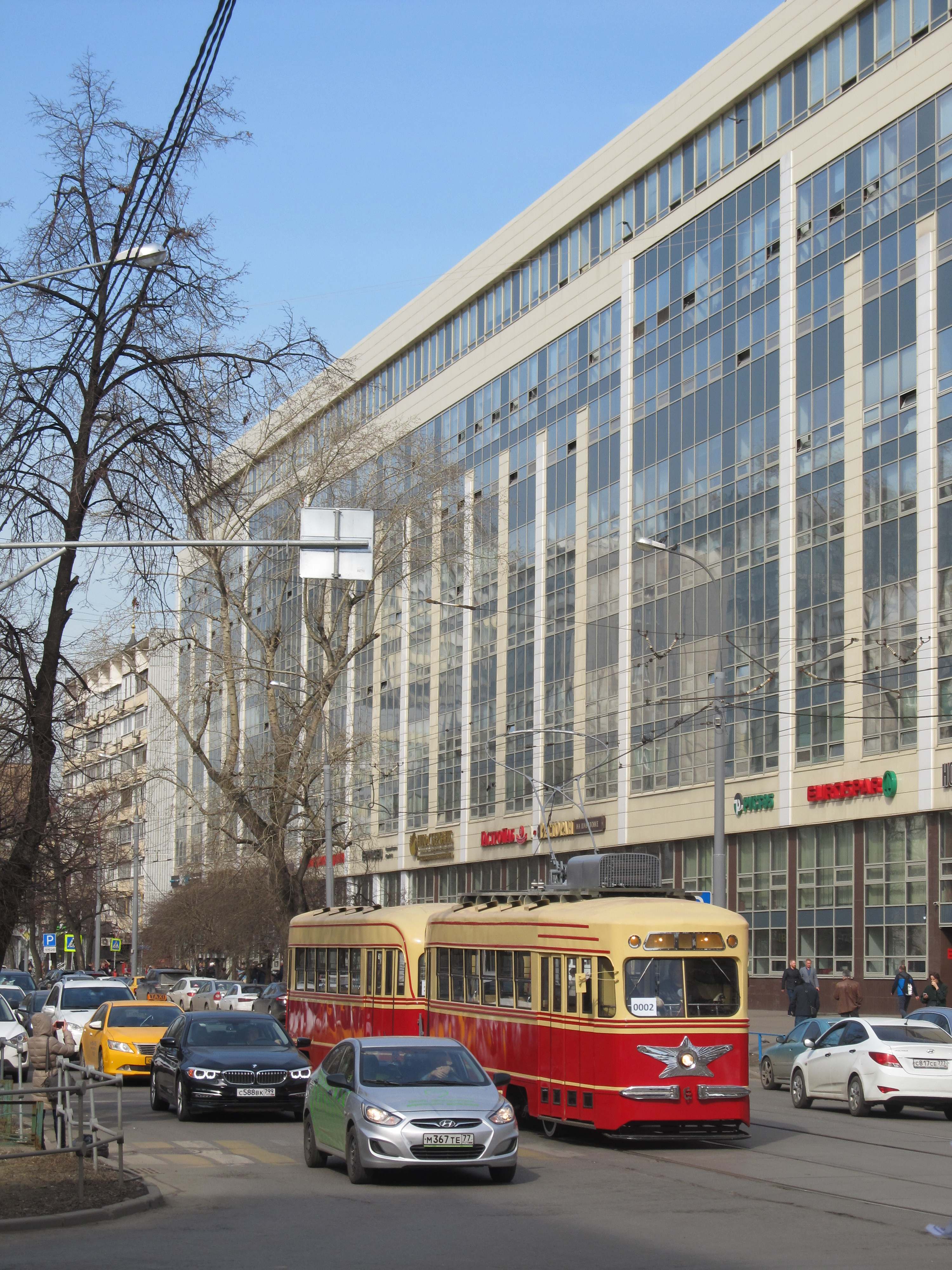 Soviet-made two-axle tram KTM-1 in Moscow.